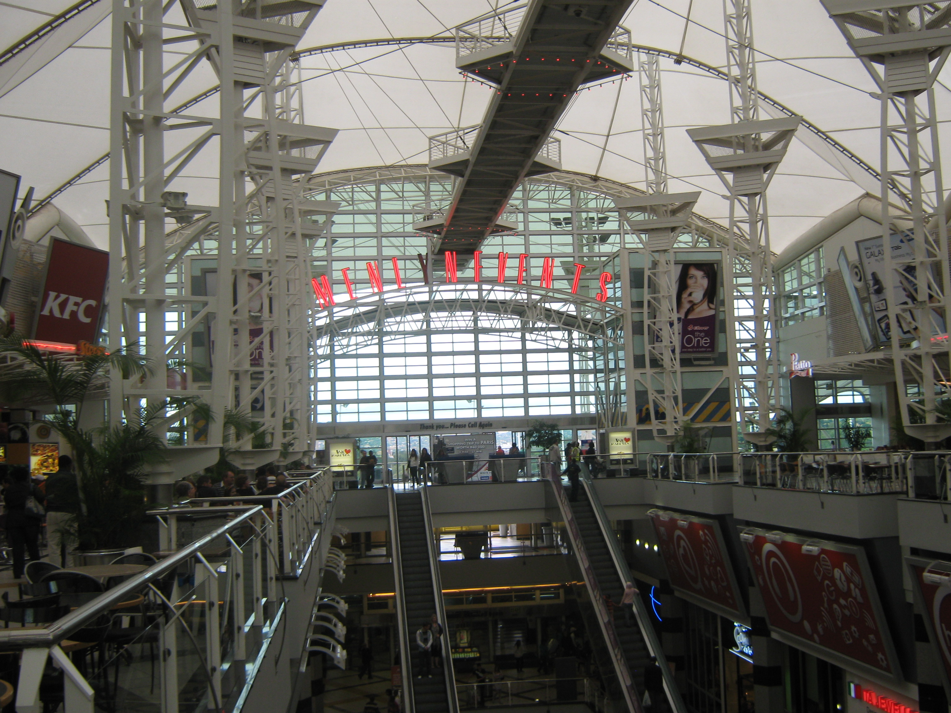 Inside the Menlyn Mall in Pretoria